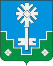 Mirny (Yakutia), coat of arms (2004)